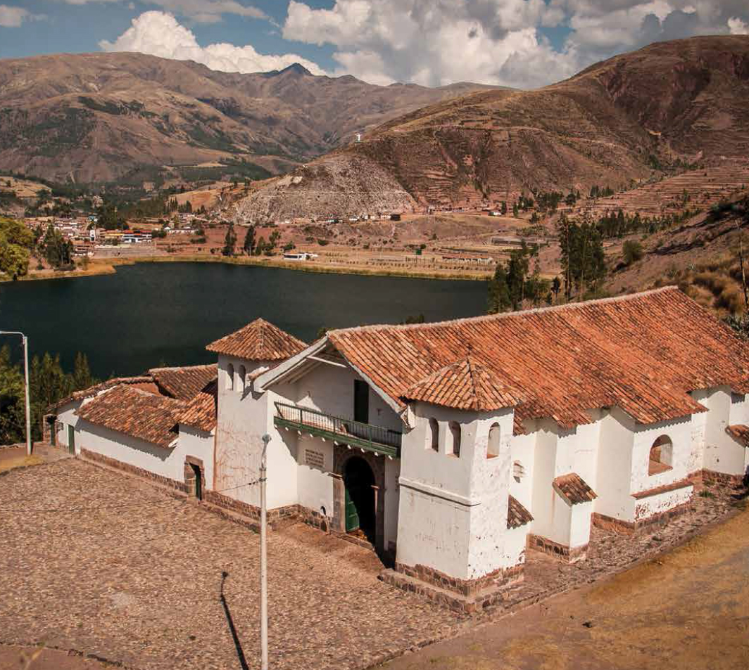 Chapelle Canincunca d'Urcos